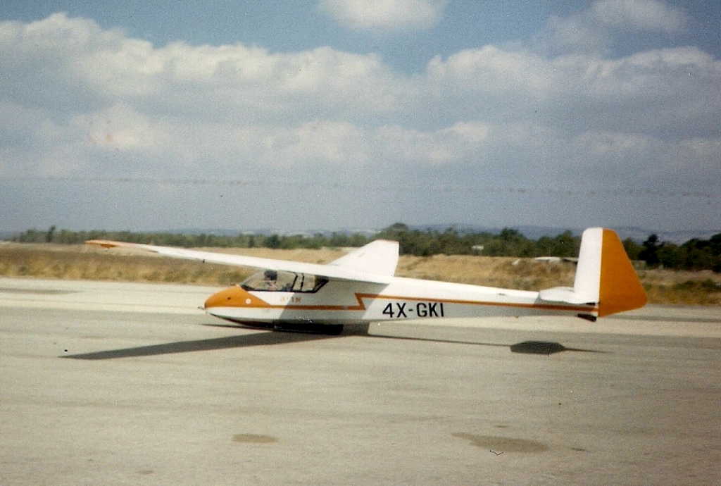 4X-GKI Schleicher Ka7 RhonAdler at Megido airstrip 1985.